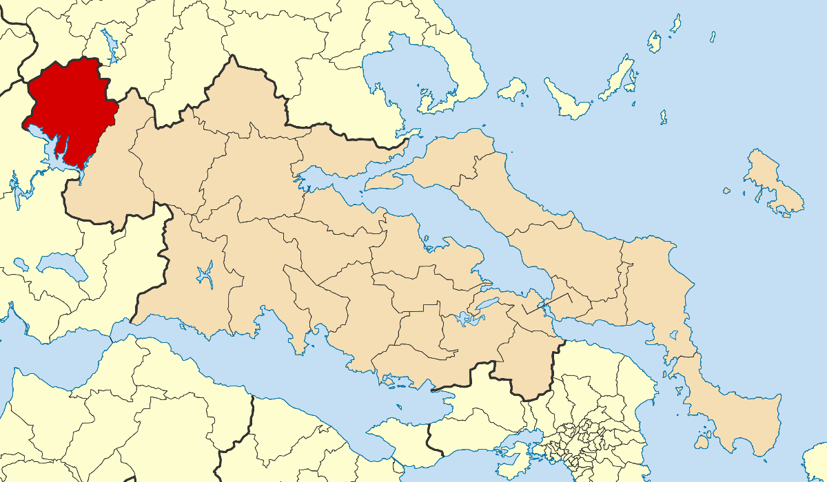 Locator map for Agrafa municipality in Greek region Central Greece (2011)